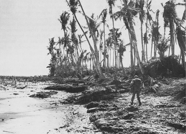 US infantrymen moving up on Biak Island. The Image is free (70 years expired since the snapshot was taken in June 1944) and is of public domain on a free US-military website, Hyperwar